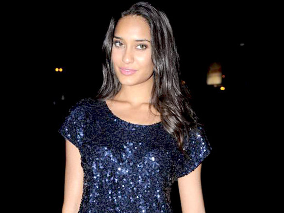 Lisa Haydon at HDIL Invitation Cup press conference